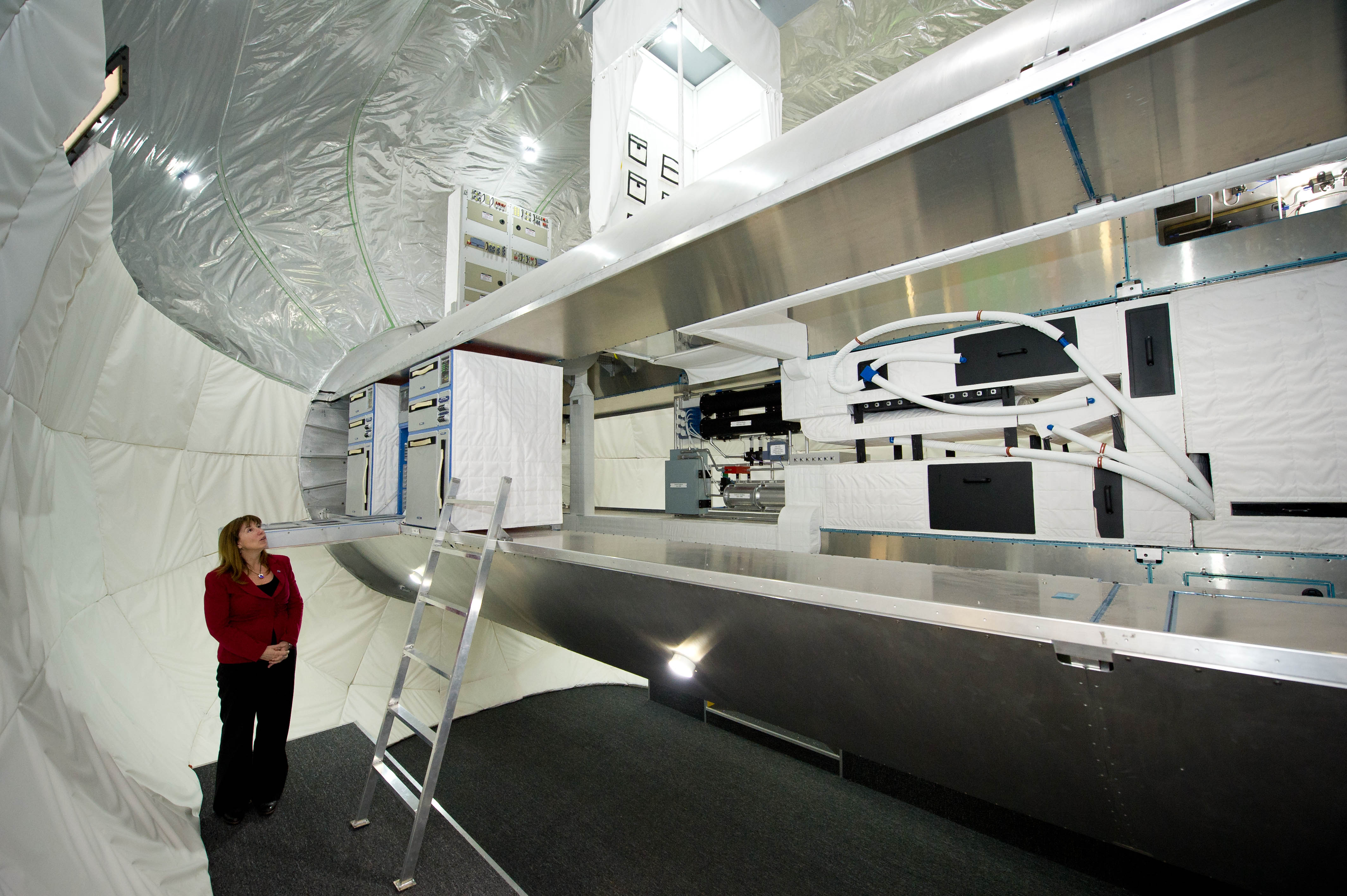 NASA Deputy Administrator Lori Garver views the inside of a full scale mockup of Bigelow Aerospace's Space Station Alpha during a tour of the Bigelow Aerospace facilities by the company's President Robert Bigelow on Friday, Feb. 4, 2011, in Las Vegas.